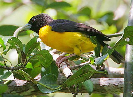 An attractive forest weaver which shows no plumage difference between the sexes.